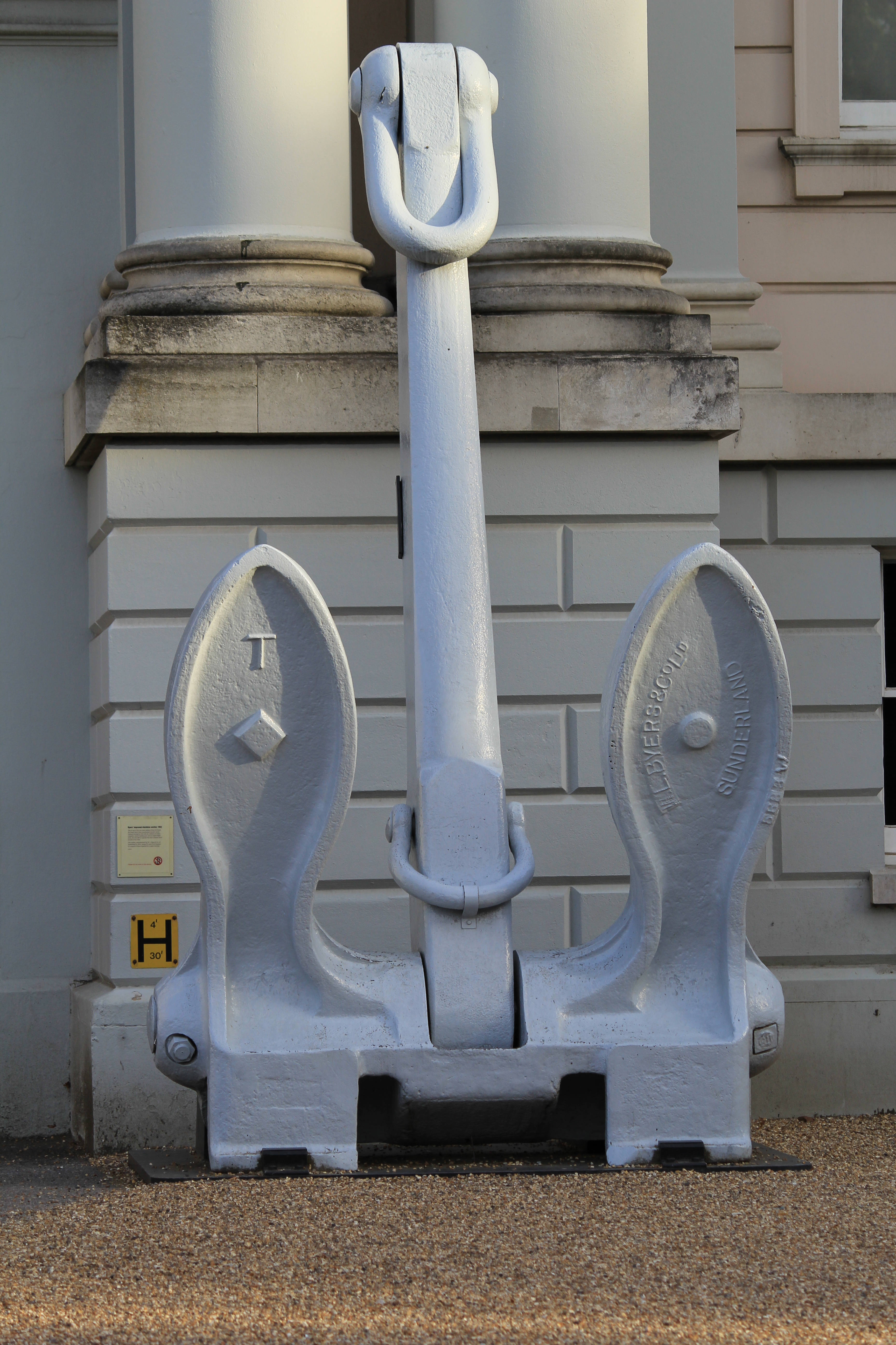 National Maritime Museum